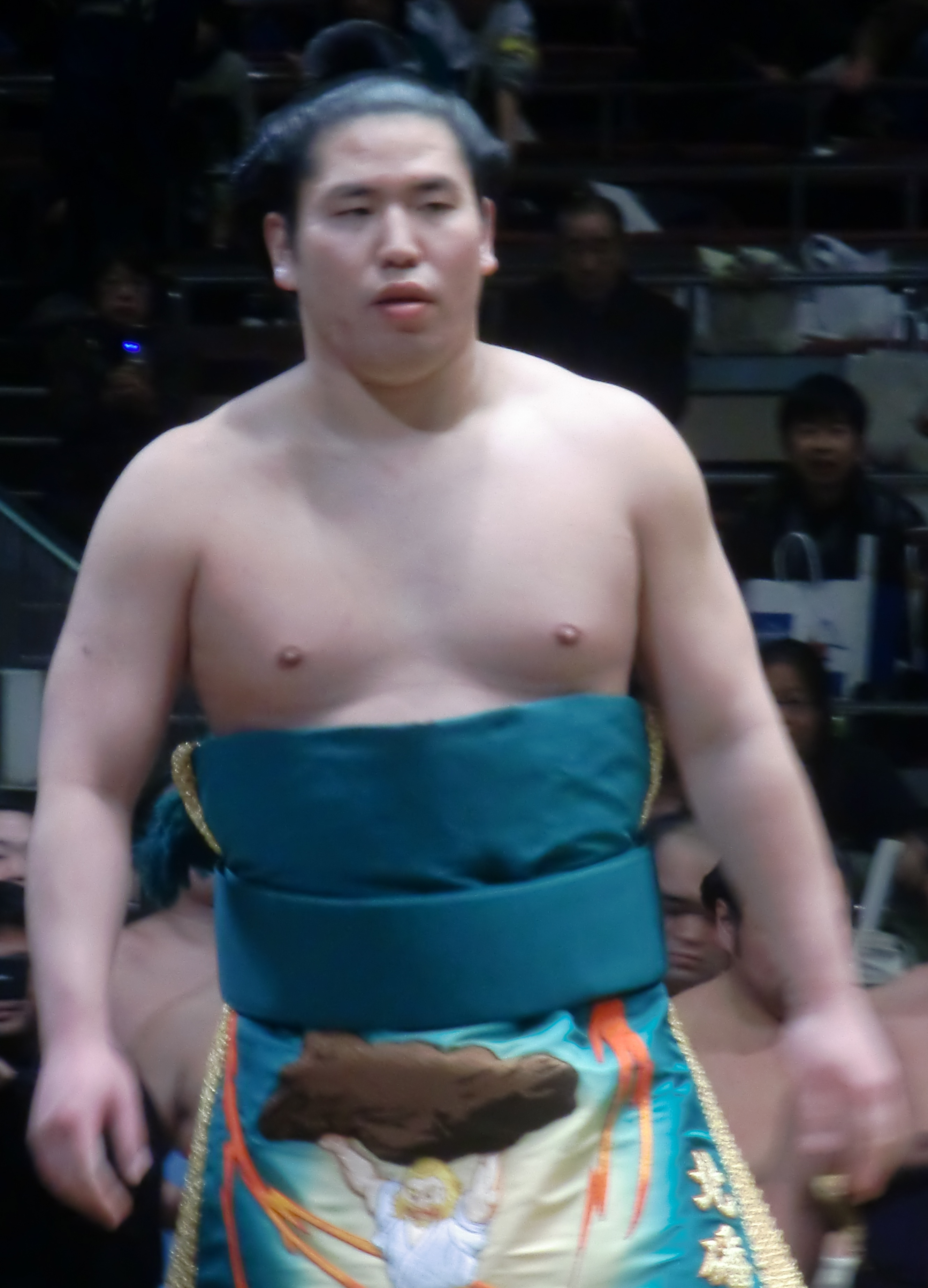 taken at 2012 Jan tournament